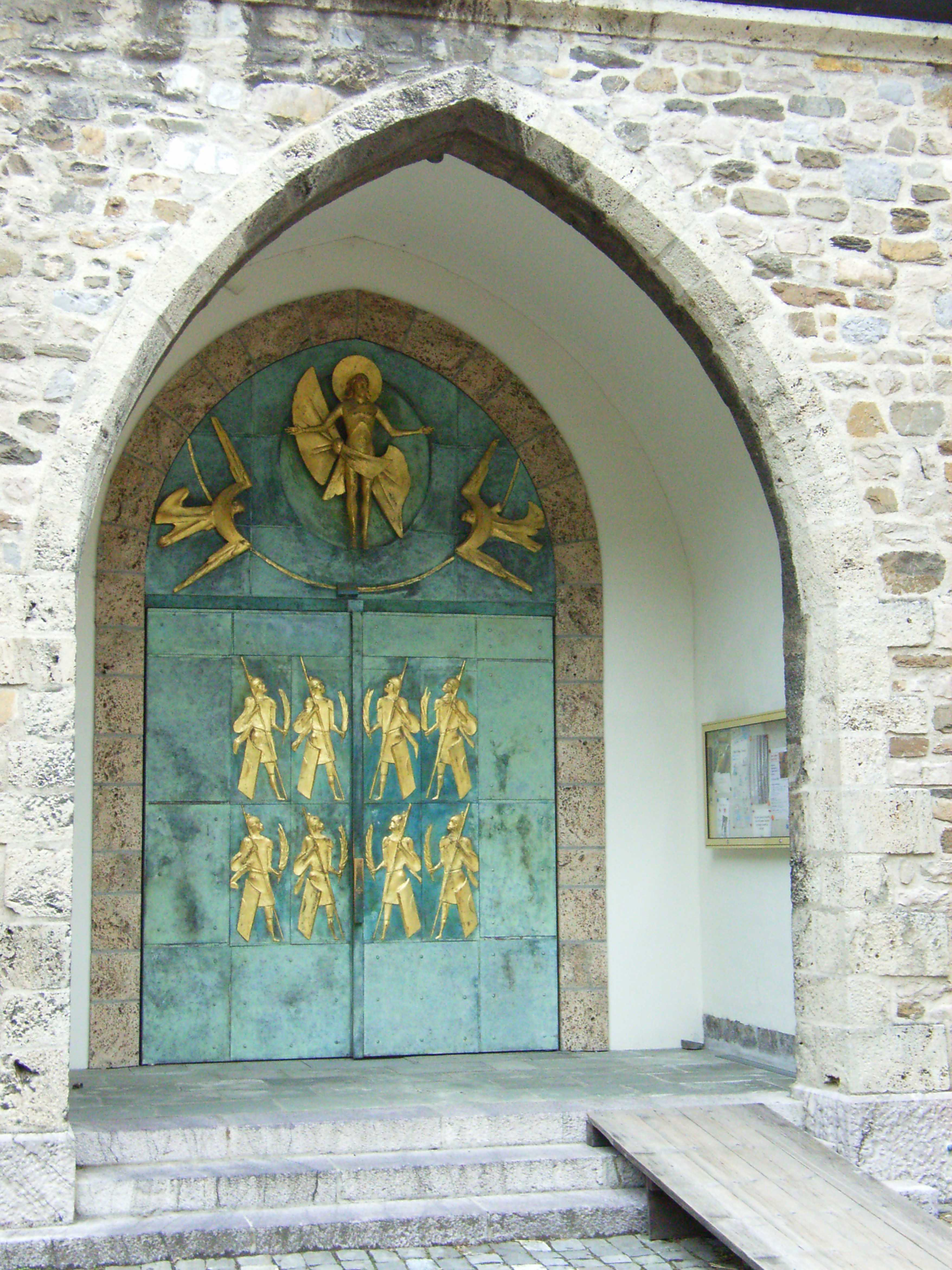 St. Maurice, portal from the Abbey (Canton Valais, Switzerland)